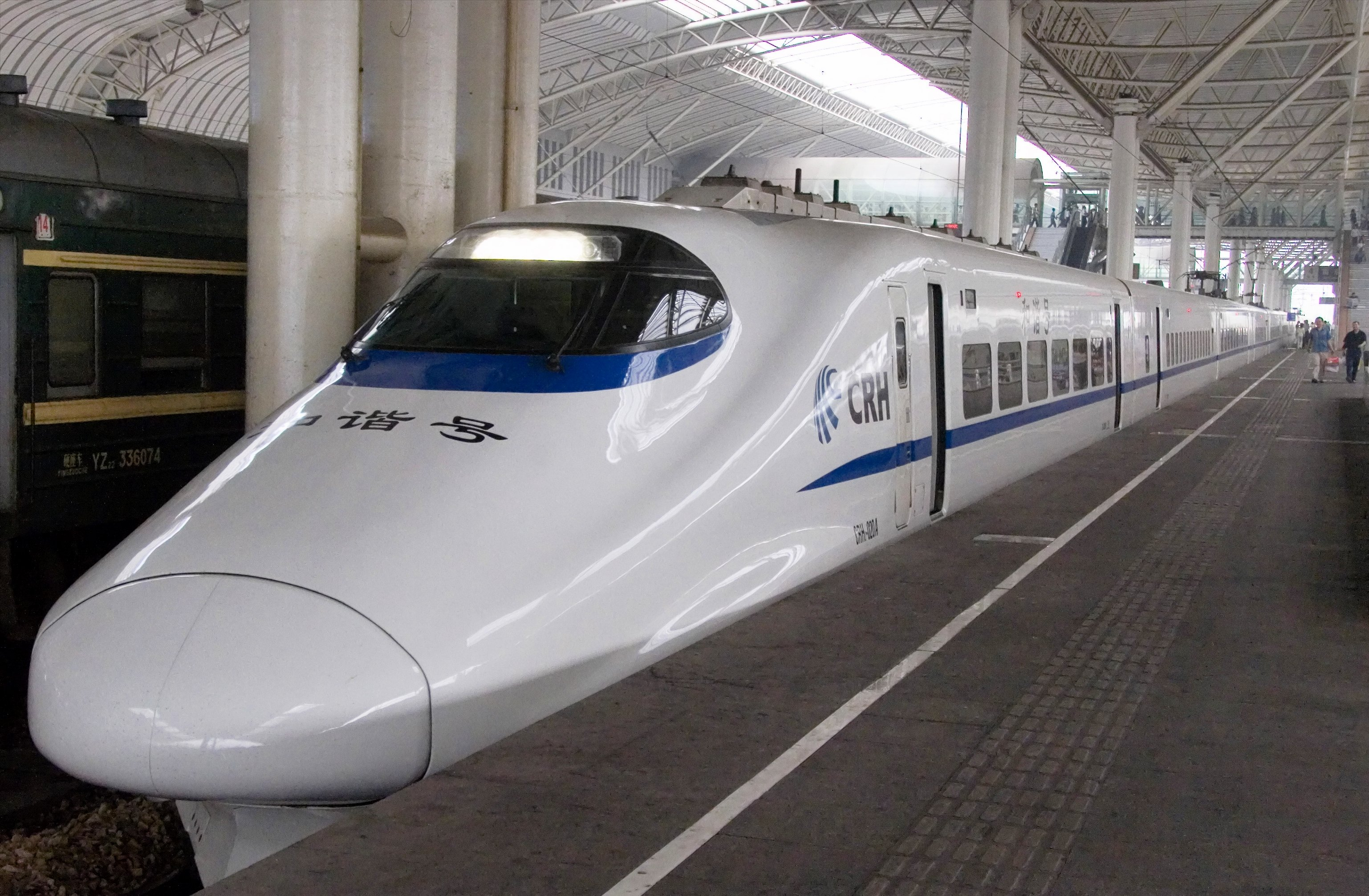 A unit of China Railways CRH2